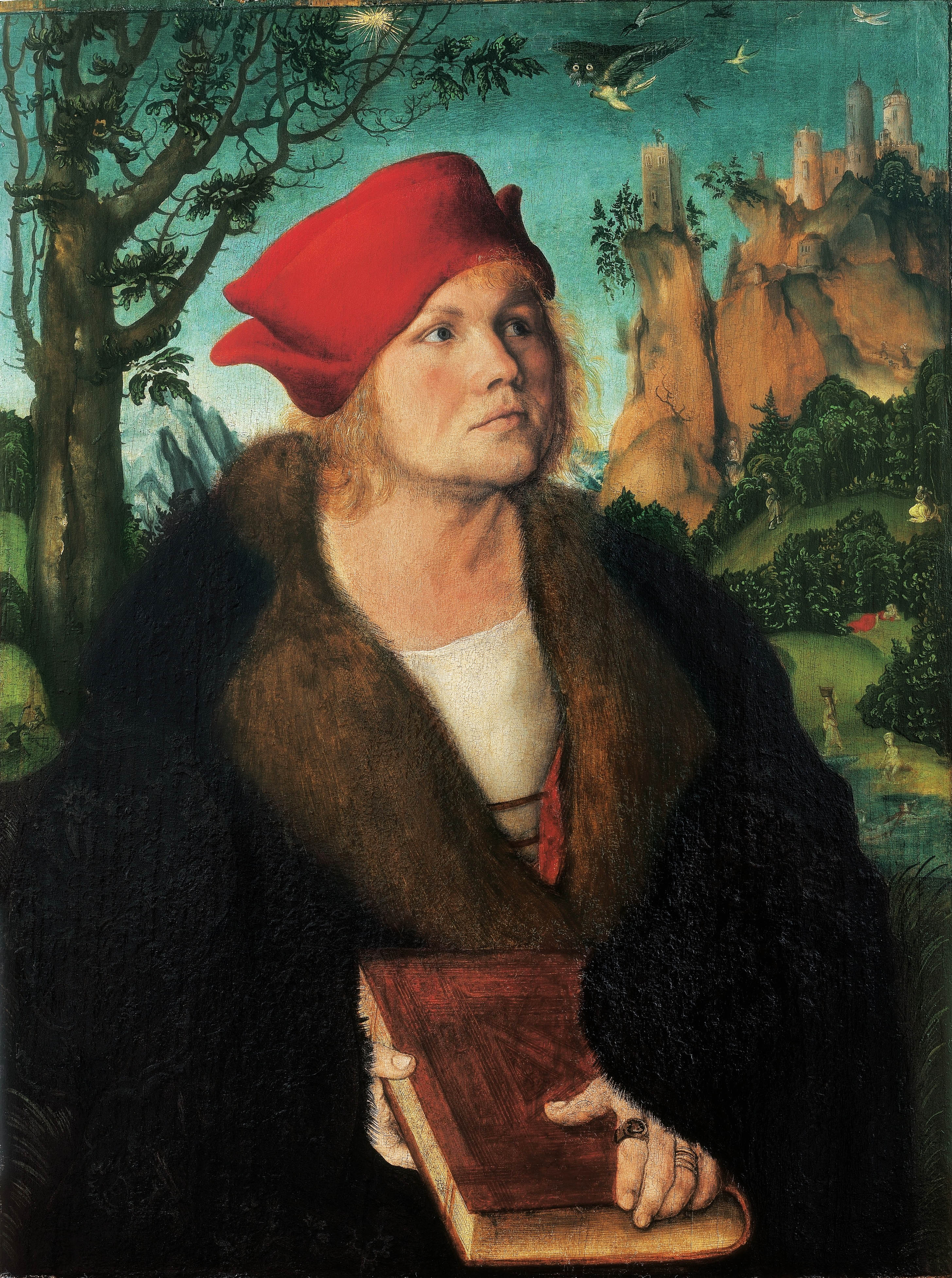 Johannes Cuspinian Counterpart to the portrait of Anna Cuspinian